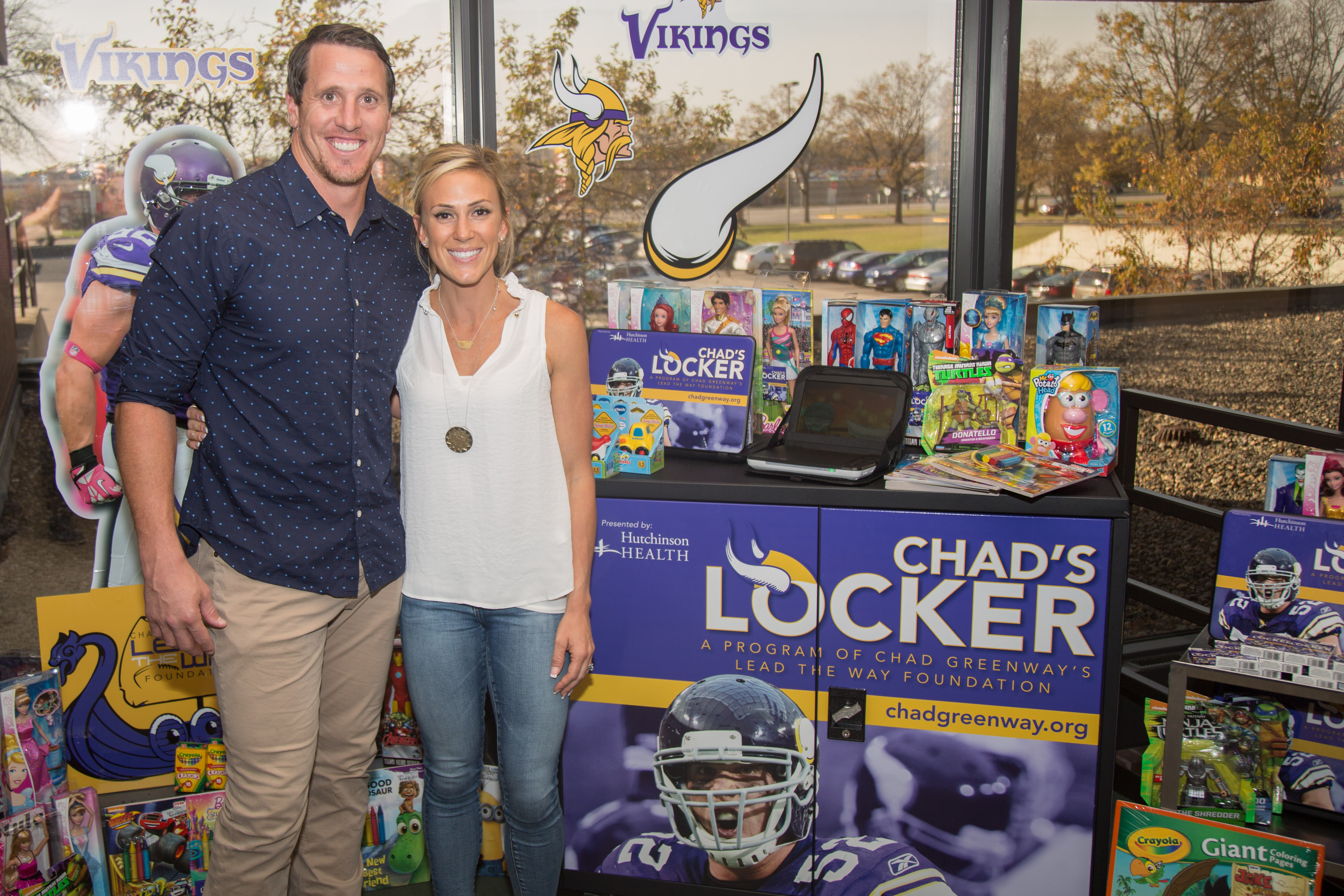 Chad Greenway donated his 7th 'Chad's Locker' in 2015.